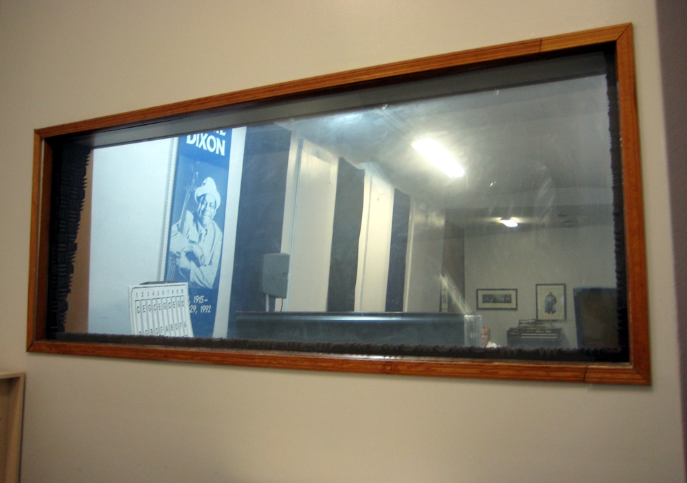 They are slowly trying to rebuild the studios as they were before the building deteriorated.